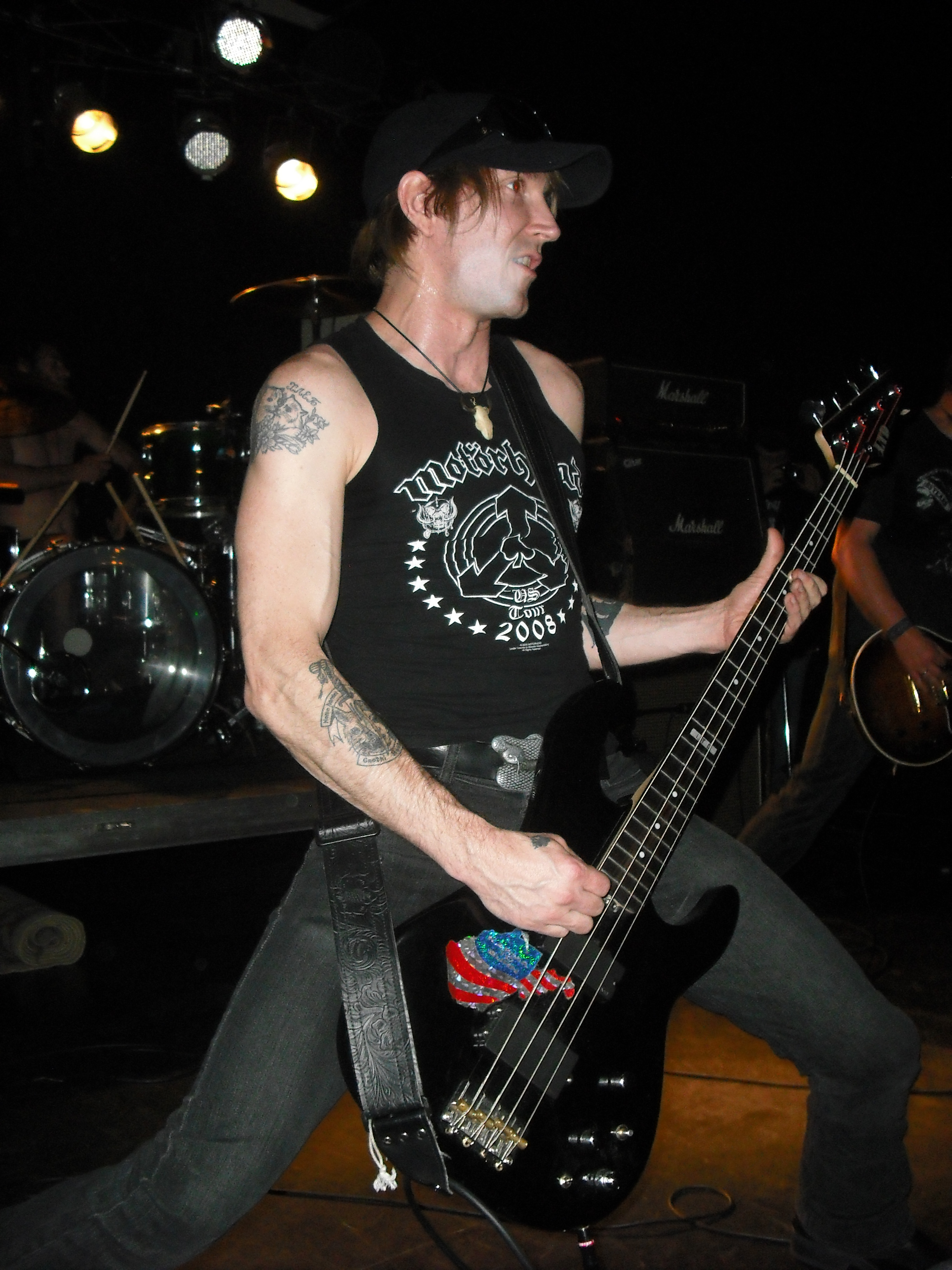 Bassist Rich Mullins of Karma to Burn plays the Greene Street Club in Greensboro, NC.